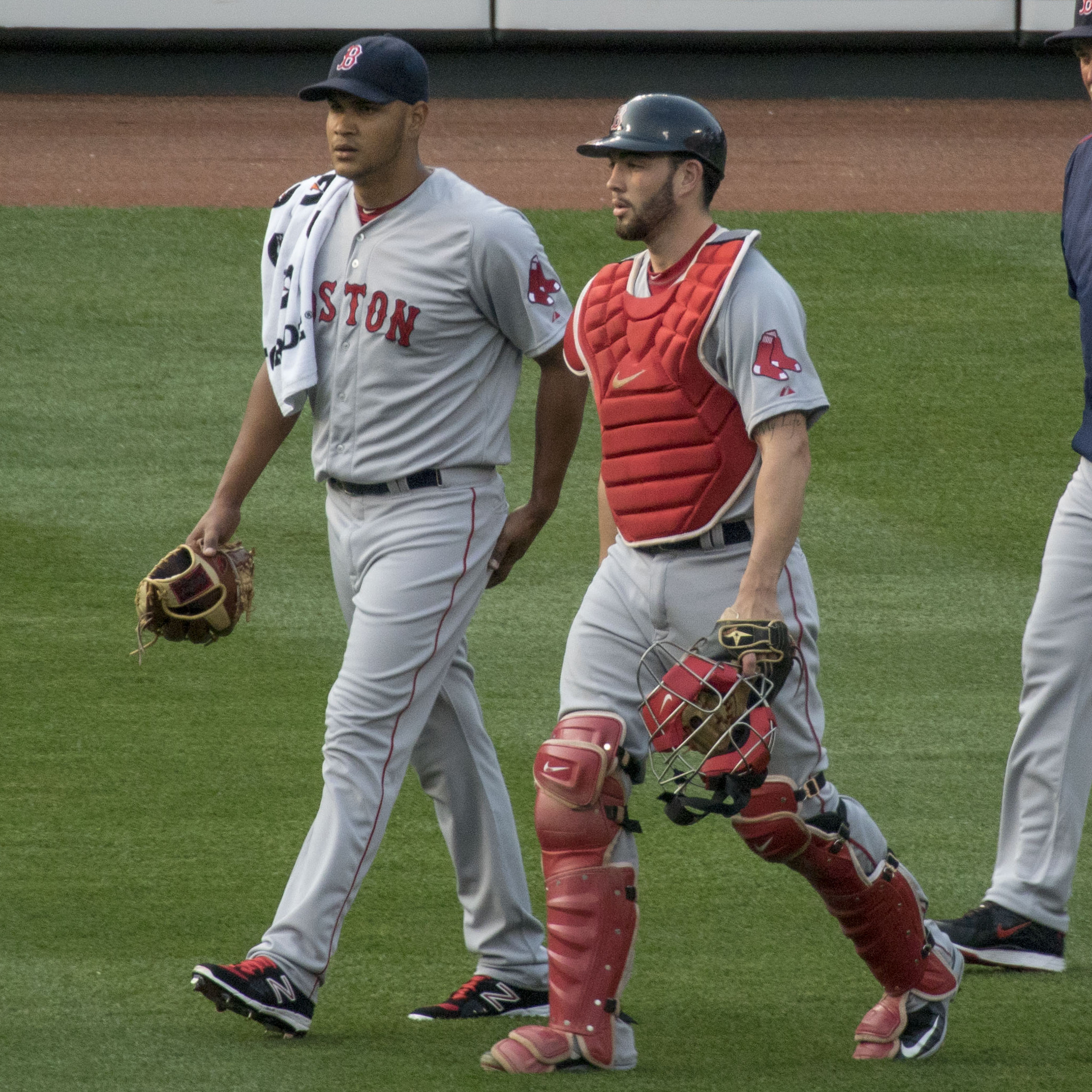 Eduardo Rodríguez (left) and Blake Swihart